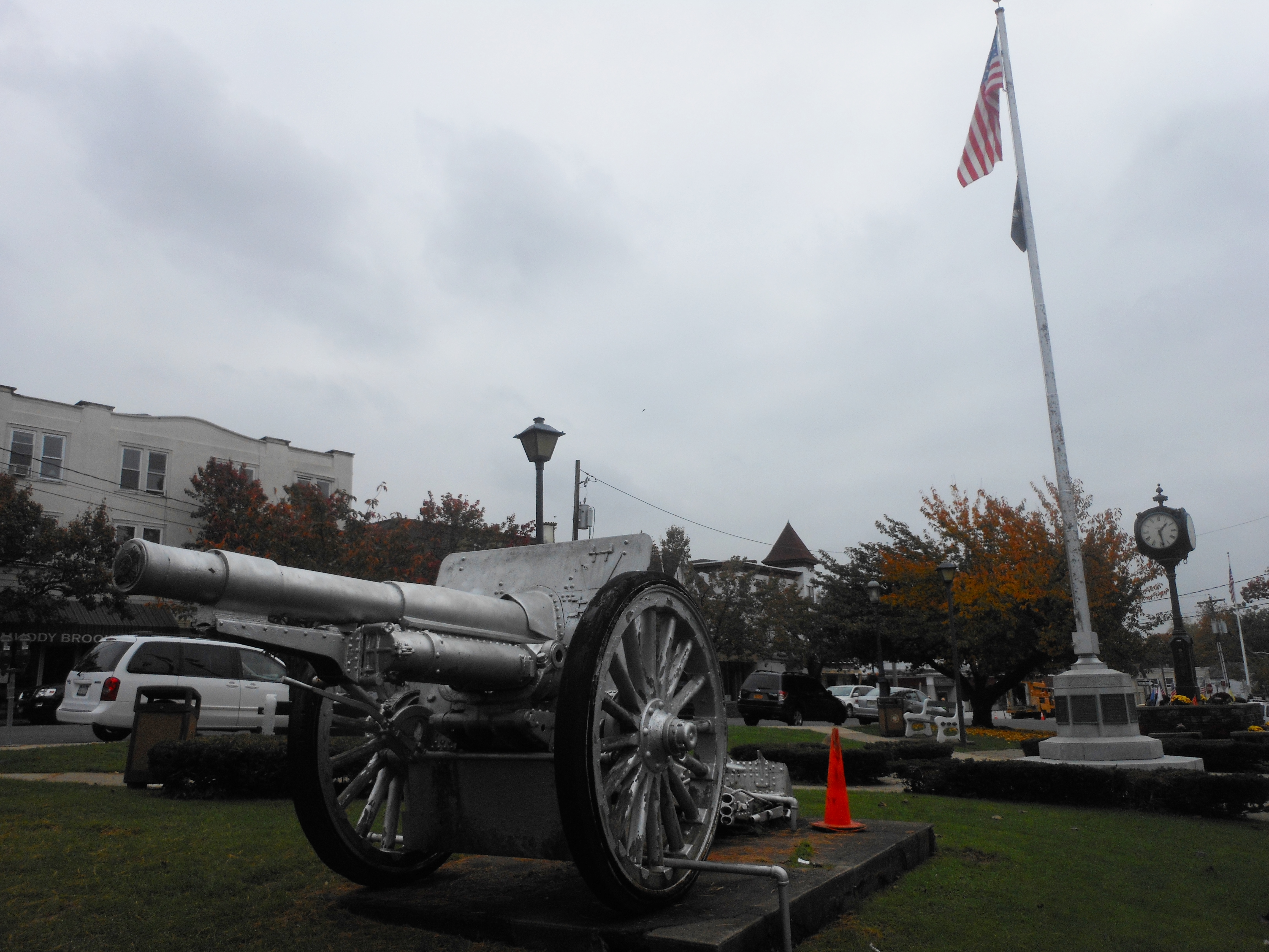 Downtown Pearl River, New York